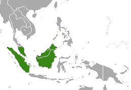 Short-tailed Mongoose (Herpestes brachyurus) range